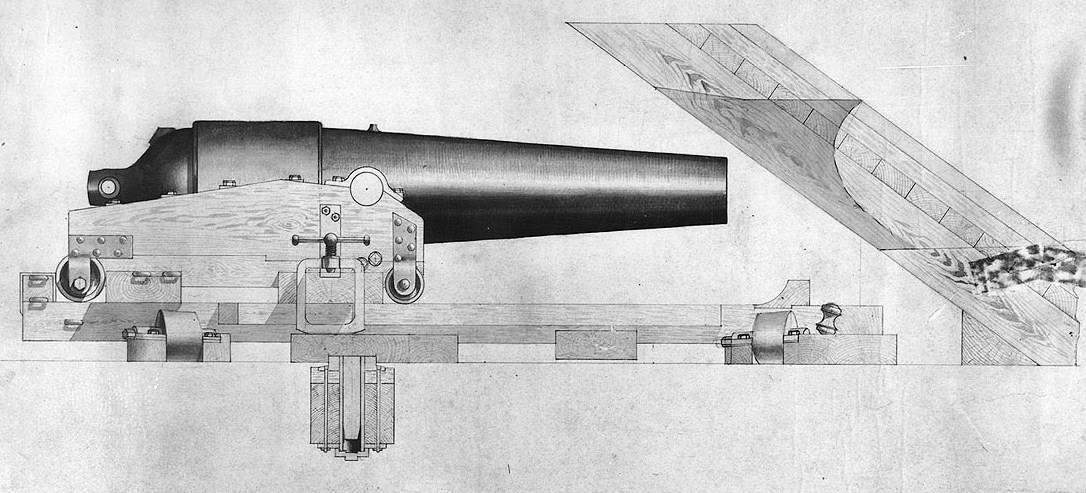 Photo #: NH 76389 Brooke Single-Banded Rifled Gun Colored plan of a gun and mounting intended for the Confederate ironclad Texas, which was launched in January 1865 at Richmond, Virginia, but not completed. Inscribed in the lower left of the drawing is: "Arranged and executed under the direction of George T. Grey (?) Supdt. and Constr. of Naval Gun Carriages, Naval Ordnance Works. Gun Carriage Dept., Richmond, Va., 1864." Prior to its acquisition by the National Archives, this drawing was in the files of the U.S. Navy's Bureau of Construction and Repair. This file is a work of a sailor or employee of the U.S. Navy, taken or made as part of that person's official duties. As a work of the U.S. federal government, it is in the public domain in the United States. This file has been identified as being free of known restrictions under copyright law, including all related and neighboring rights. This work is in the public domain in its country of origin and other countries and areas where the copyright term is the author's life plus 100 years or fewer. You must also include a United States public domain tag to indicate why this work is in the public domain in the United States. This file has been identified as being free of known restrictions under copyright law, including all related and neighboring rights.